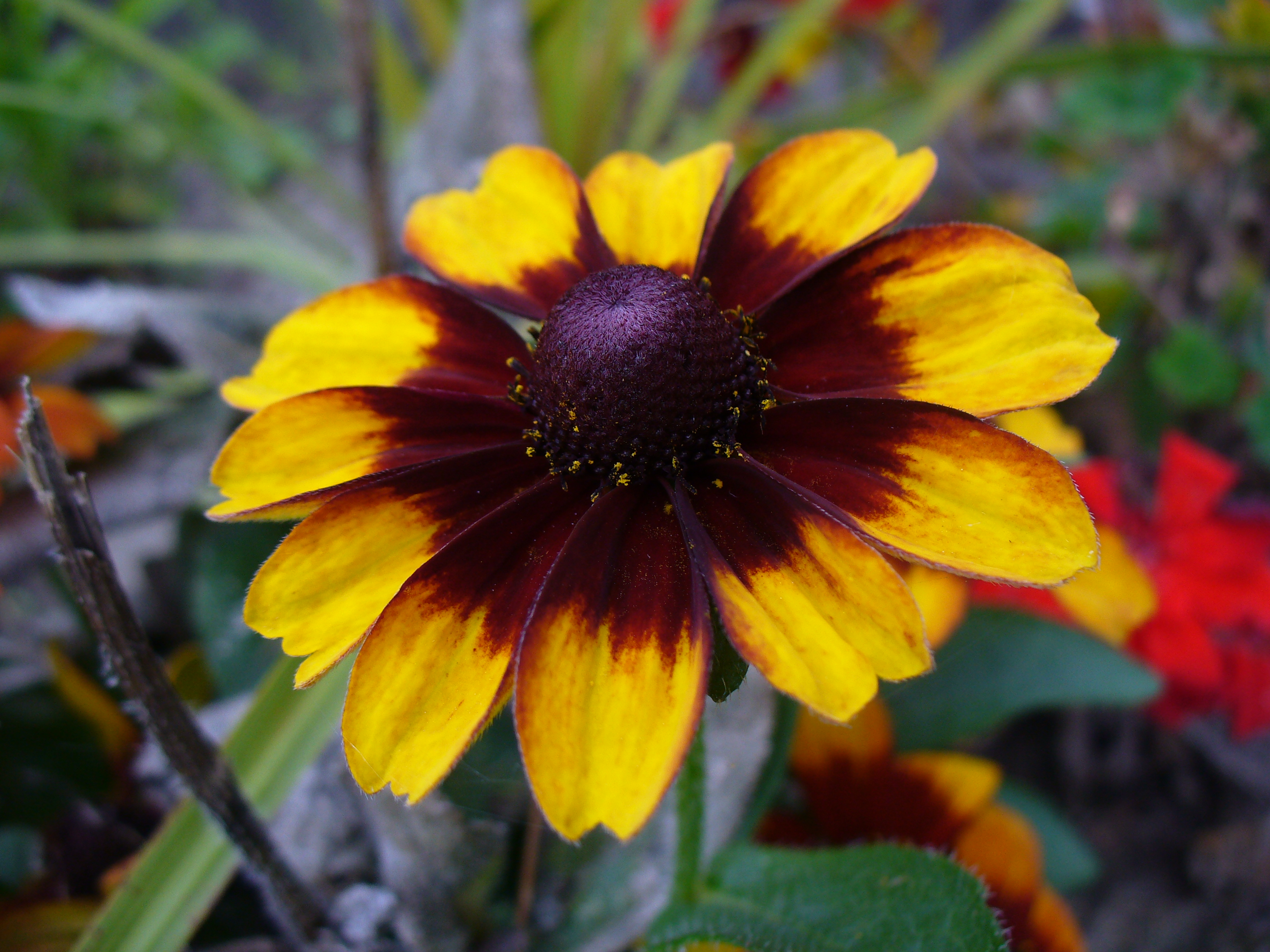 I am the originator of this photo. I hold the copyright. I release it to the public domain. This photo depicts a flower of an unidentified member of the Asteraceae, probably an annual Rudbeckia.